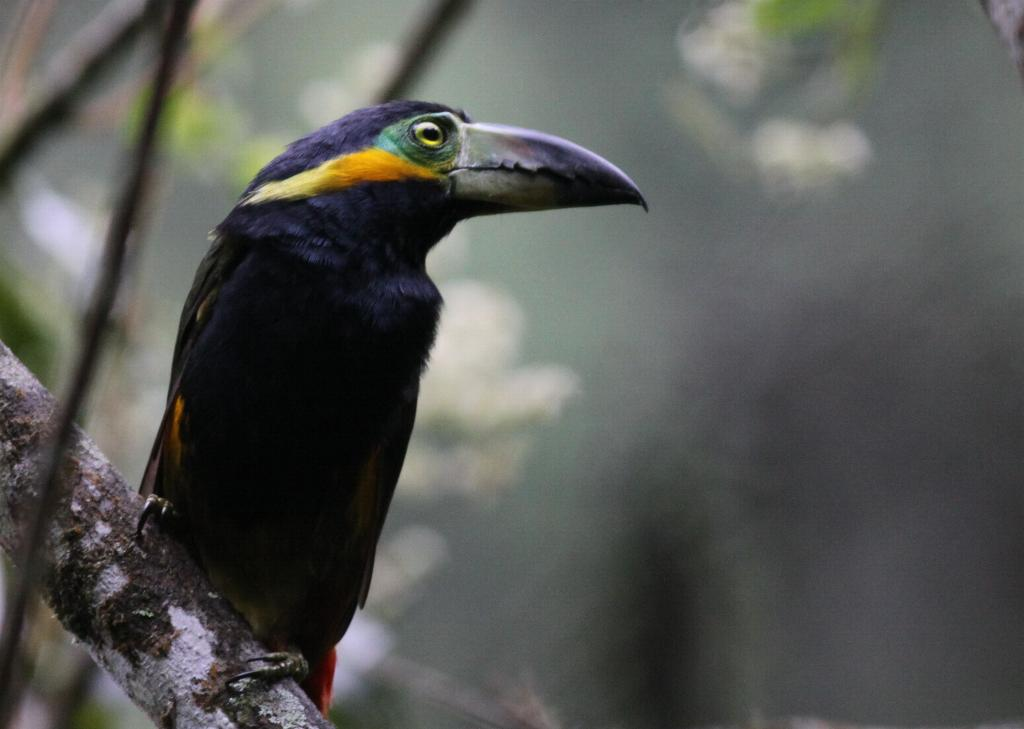 Golden-collared Toucanet (Selenidera reinwardtii)